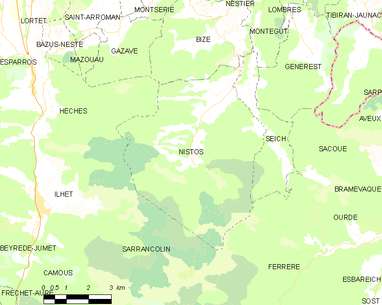 Map of French municipality